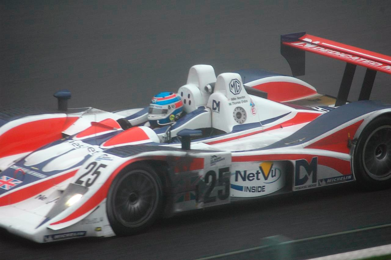 Ray Mallock Ltd.'s (RML) MG-Lola EX264 at the 2005 1000km of Spa driven by Mike Newton.